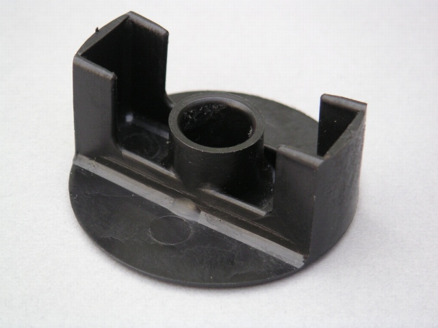 A plastic injection molded piece